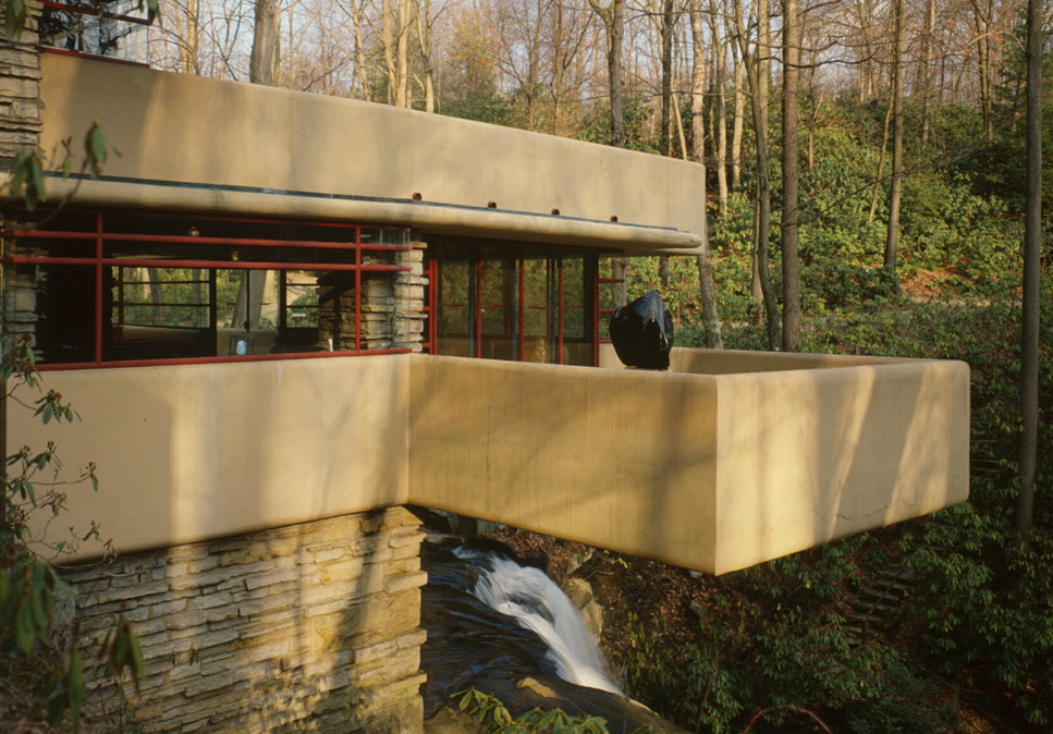 Frank Lloyd Wright, Fallingwater, State Route 381 (Stewart Township), Ohiopyle vicinity, Fayette County, PA - Detail of west living room terrace over crest of waterfall.